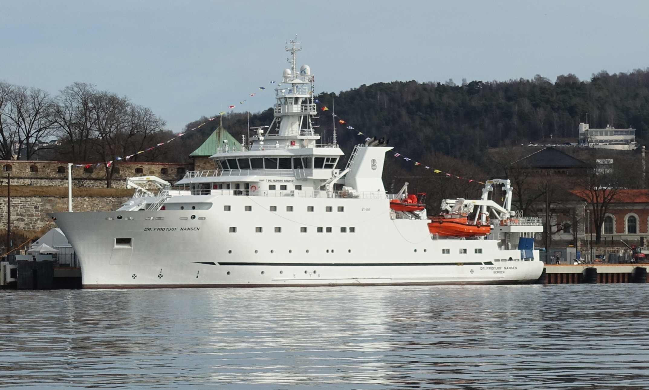 Dr. Fridtjof Nansen, Norwegian fishery research ship, in Oslo